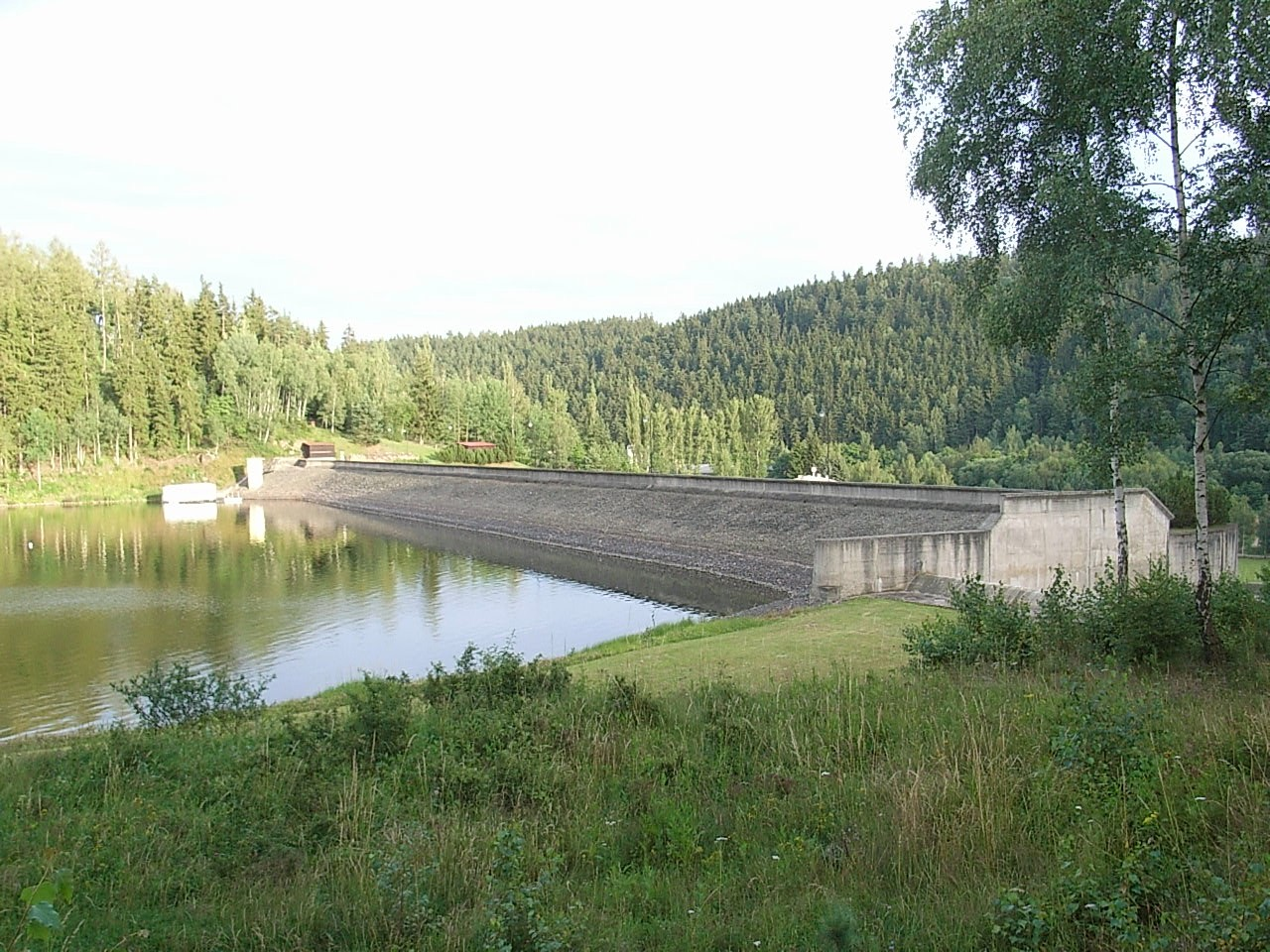 Vodní nádrž Žlutice, hráz